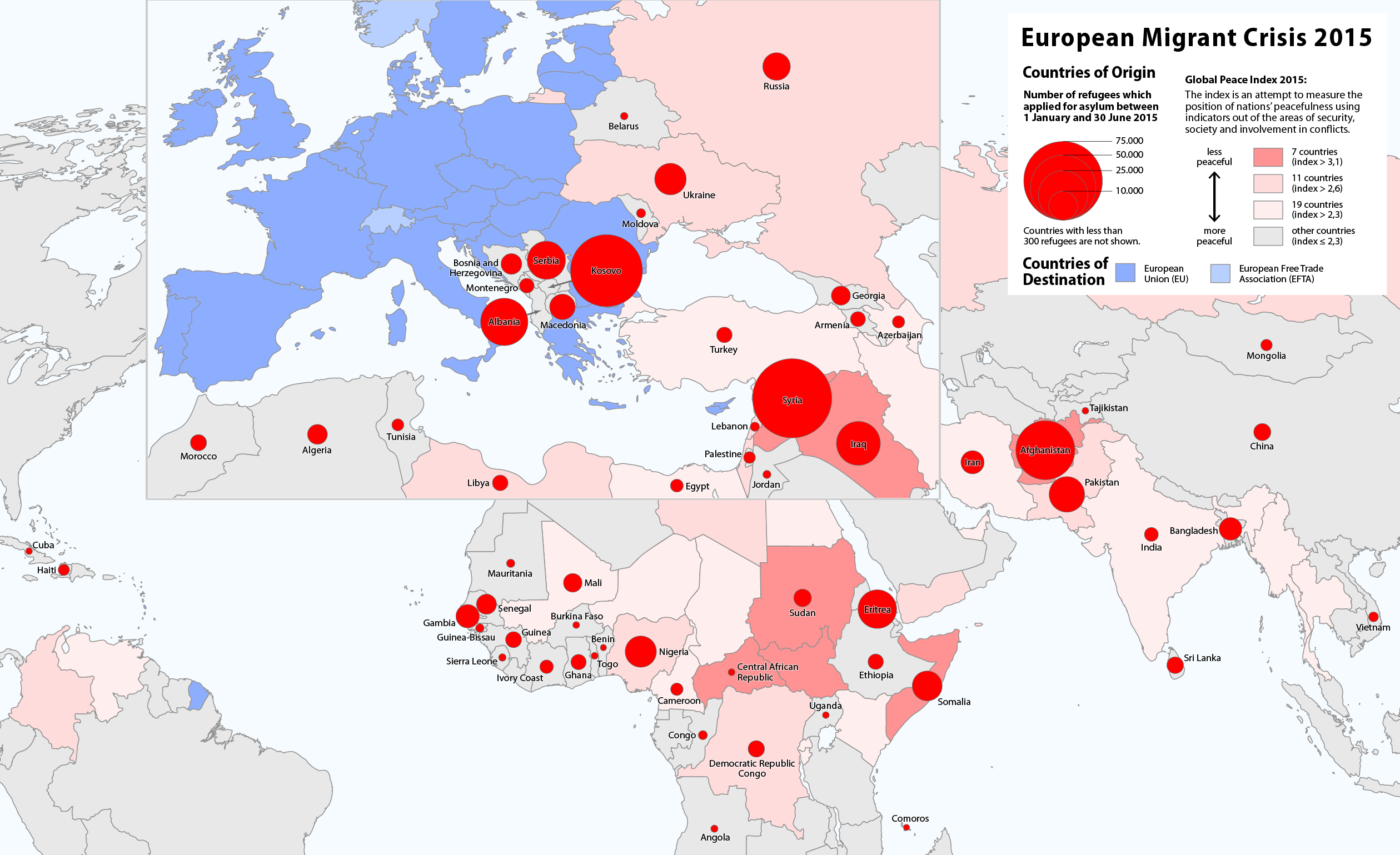 European migrant crisis 2015. Countries of origin of refugees which have applied for asylum in Europe between 1 January and 30 June 2015.